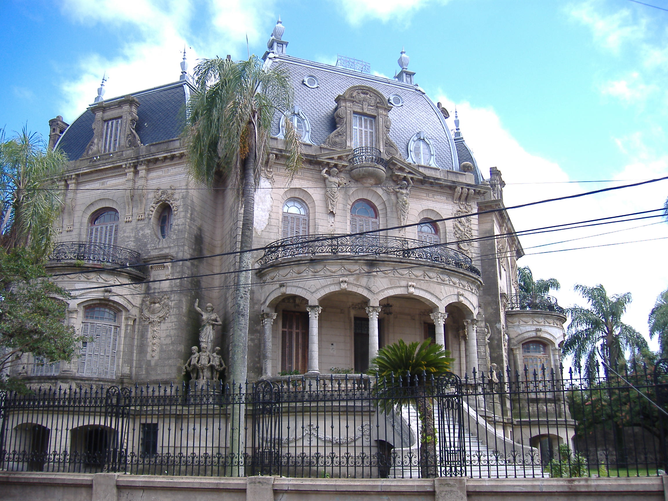 Arruabarrena Palace, former home of the Arruabarrena family built in 1919, now a museum, in Concordia, Entre Ríos Province, Argentina.